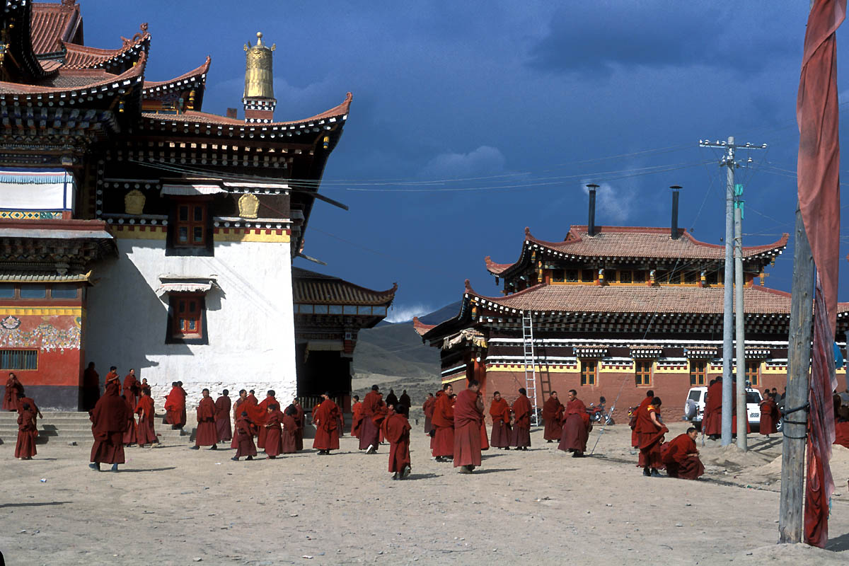 The Bönpa monastery of Narshi Gonpa (Chinese: 朗依寺; Chinese Pingyin: Langyi si) at Ngawa (Chinese: 阿坝; Chinese Pingyin: Aba), Sichuan Province, China.